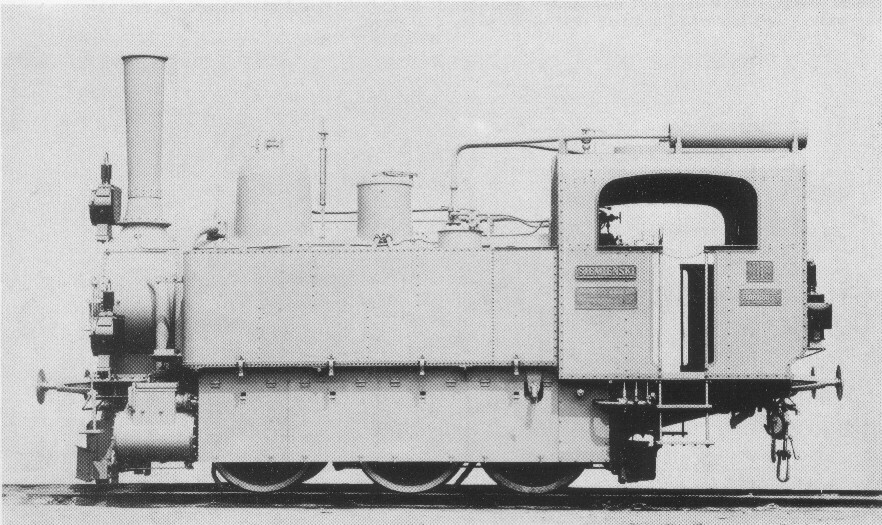 Austrian locomotive Siemienski from Lokalbahn Lemberg–Kleparow-Janow, later kkStB 394 class.